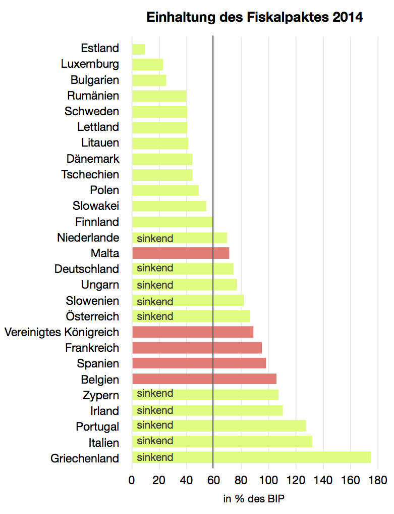 The compliance of the governments financial budget with the strict criteria defined by the Fiscal Compact for each of the EU member states. The figures all origin from the economic winter forecast published by the European Commission in 2013.